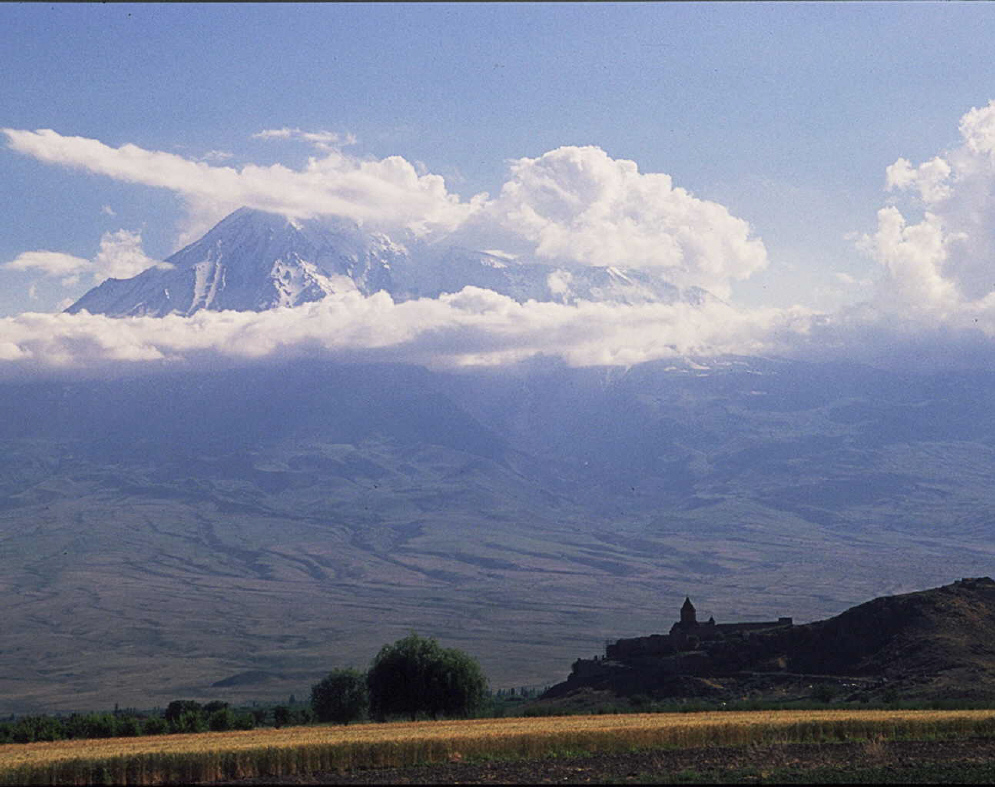 Description: Armenia, Khorvirap monastery in front of Mount Ararat; Source: My own picture; Date: created May 2005; Author: Konrad Kuhn; Permission: Own work, attribution required